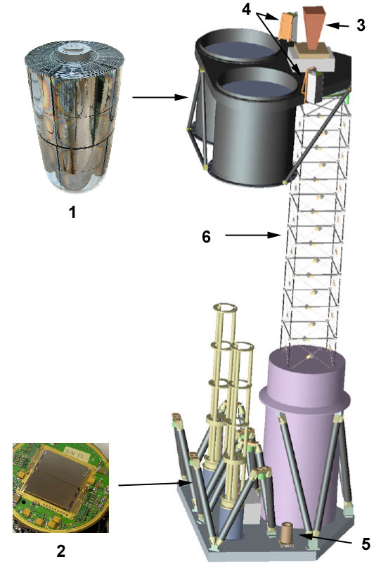 Nustar diagram : 1 : hard X-rays optic - 2 : Focal plane detector - 3 : Star tracker - 4 & 5 : Laser metrology system - 6 : Deployable mast (10 m.)